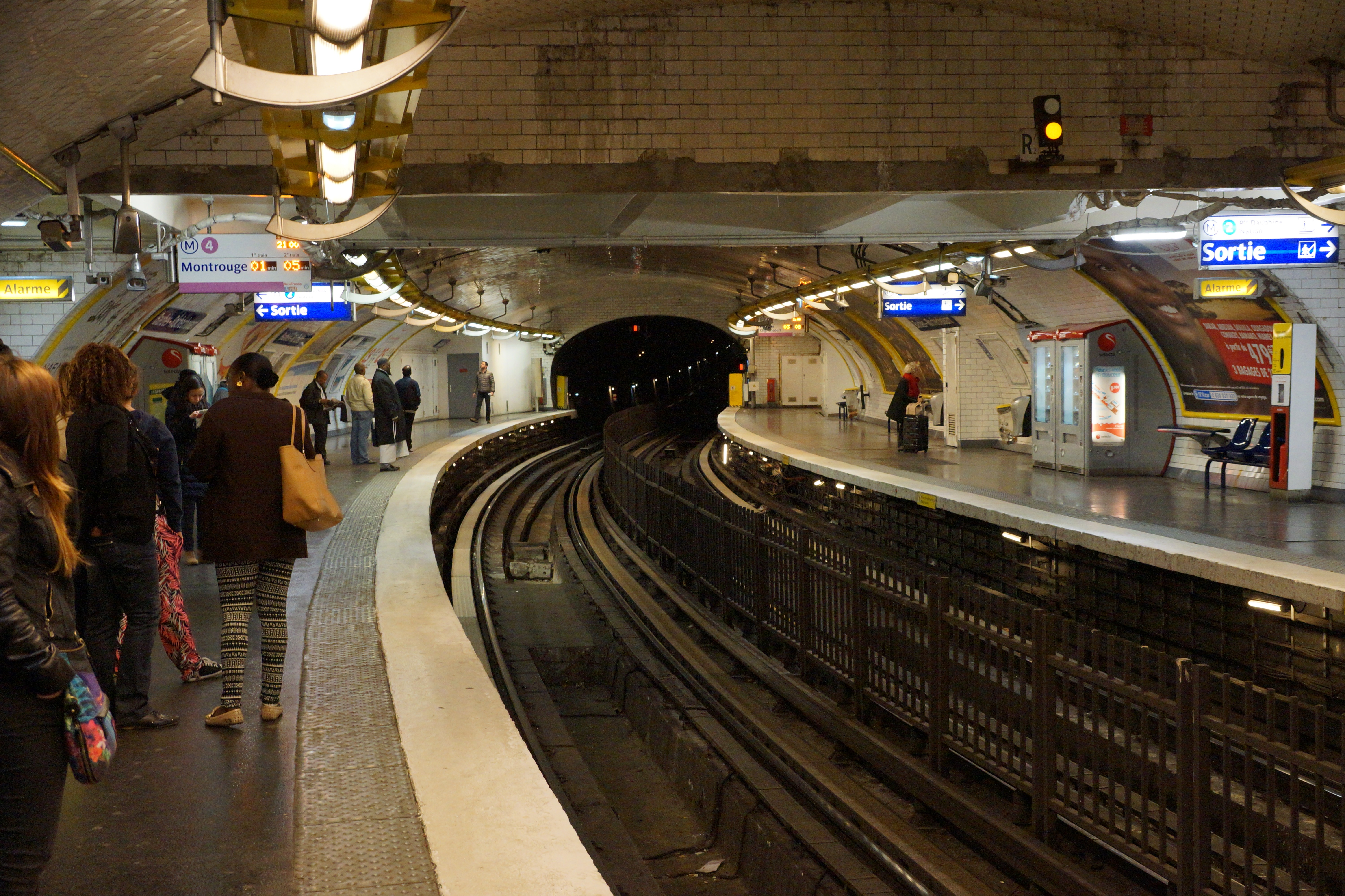 Barbès - Rochechouart metro station, Paris.